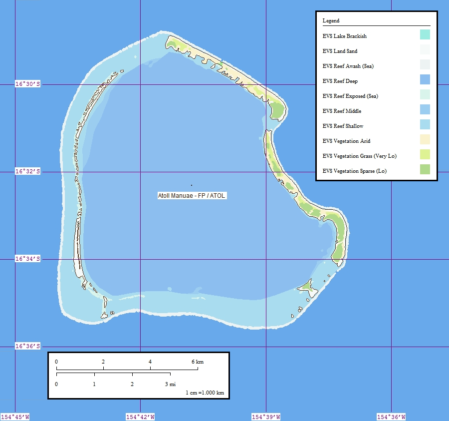 Map of Manuae (former Scilly Atoll), Society Islands, French Polynesia